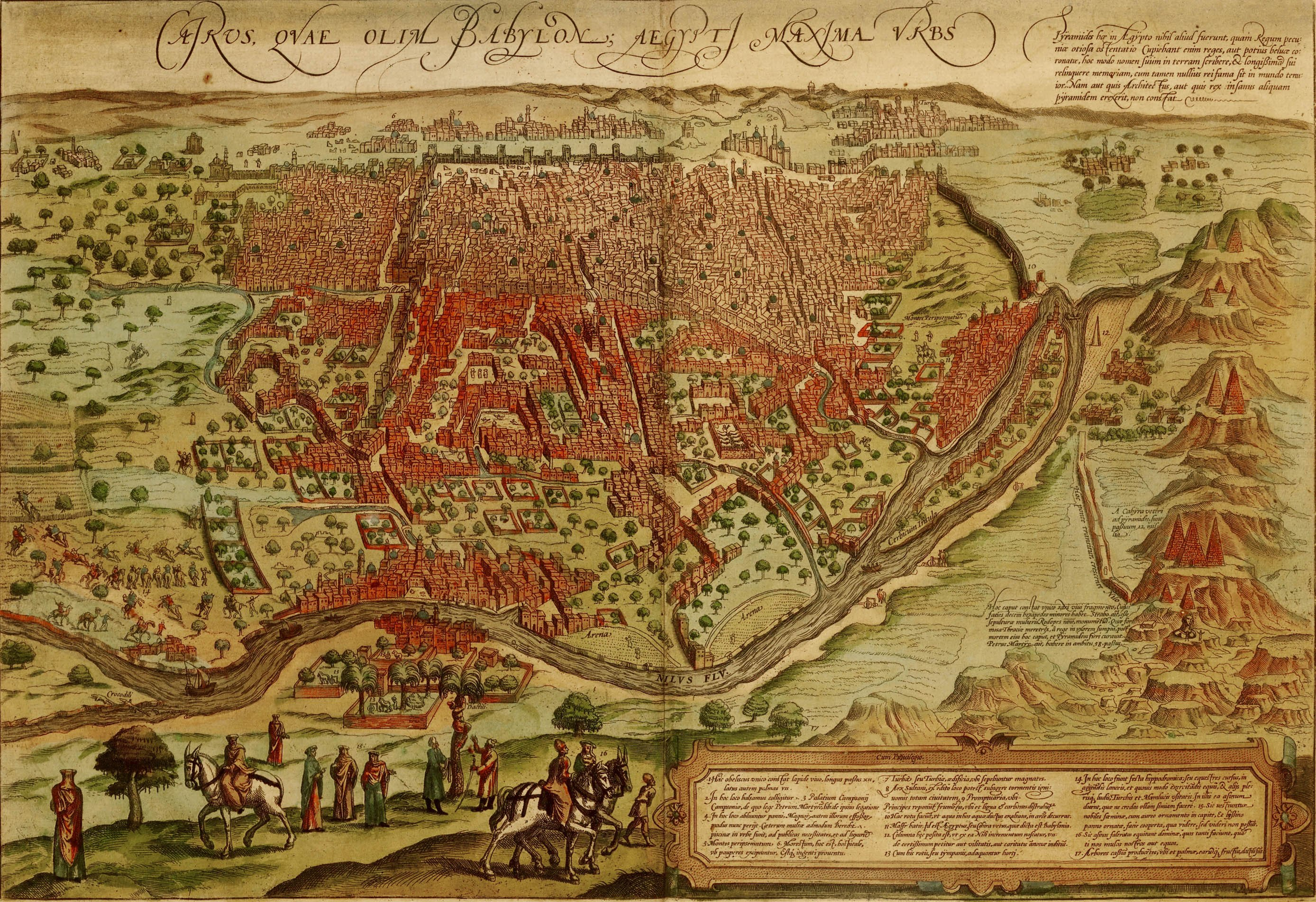 Old map of Cairo, published in Civitate Orbis Tarrarum by Braun et Hogenberg, 1572.